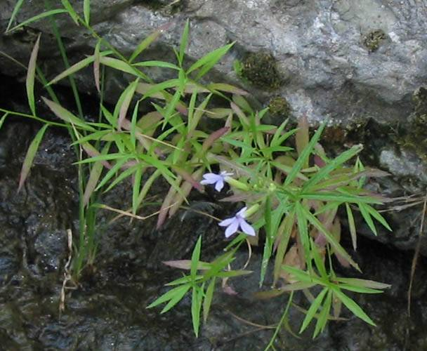 Lobelia dunnii var. serrata at Circle X Ranch, Santa Monica Mountains National Recreation Area, California, USA.